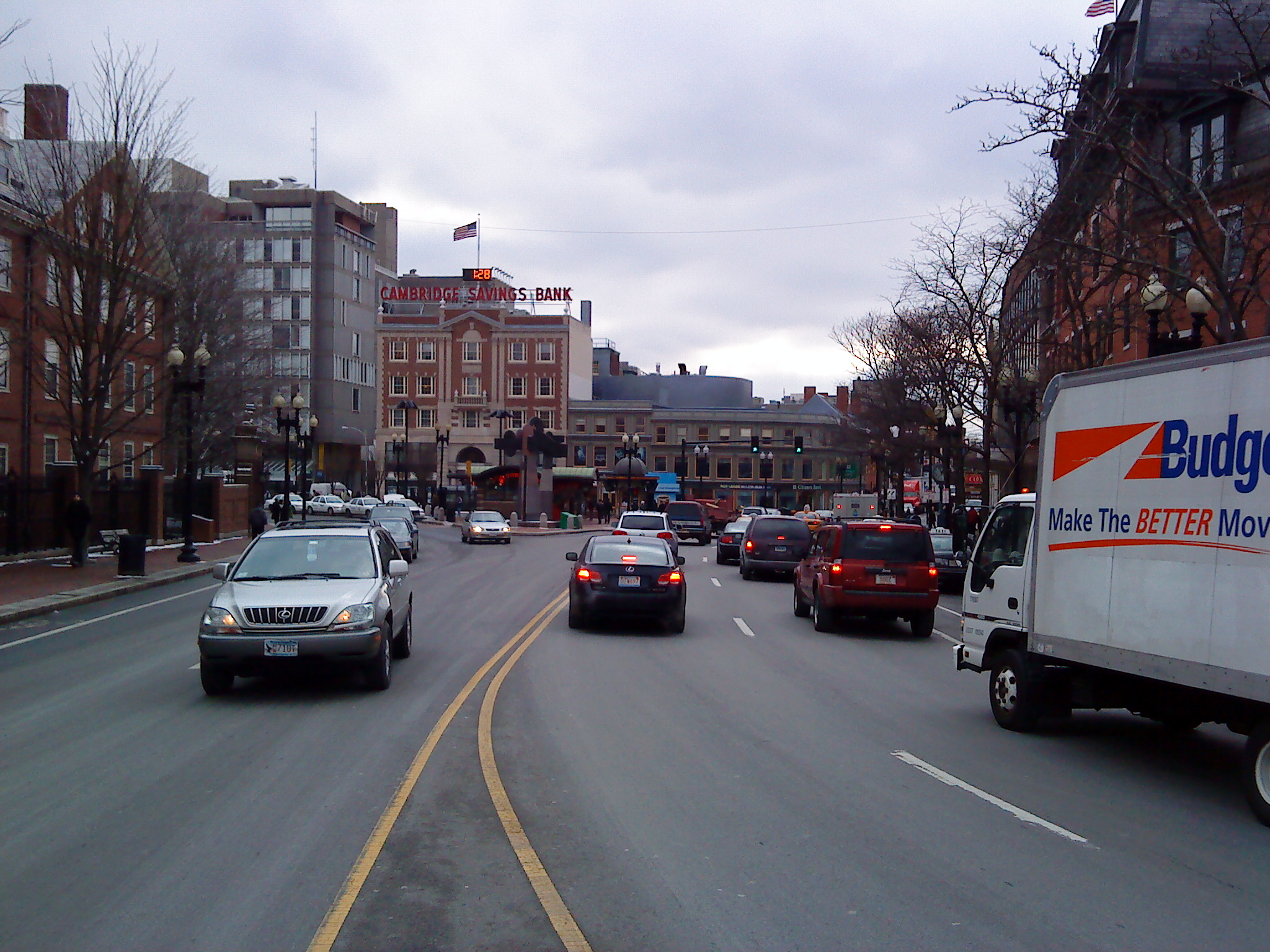 Harvard Square from the convergence point of Massachusetts Avenue (left) and Peabody Street (right).